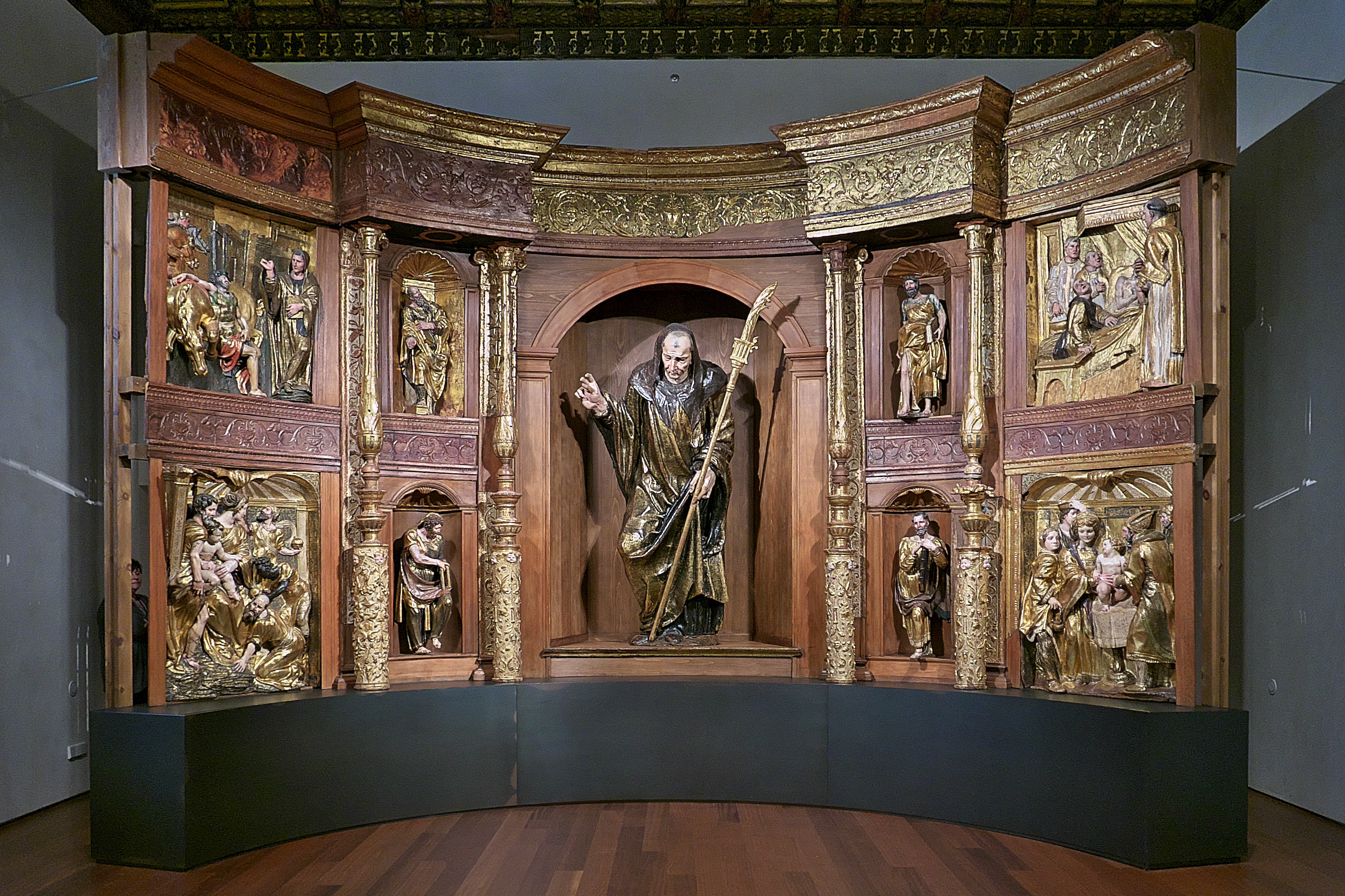 Monastery of San Benito el Real, Valladolid (Spain). Disentailment. First storey of the retable. Alonso Berruguete (1526-1532). Polychrome wood, oil on panel.